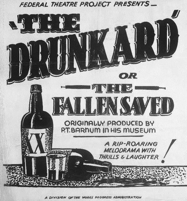 Theatrical poster for The Drunkard Title: Federal Theatre Project presents "The drunkard or the fallen saved" Originally produced by P.T. Barnum in his museum: A rip-roaring melodrama with thrills & laughter! Related Names:Federal Theatre Project (U.S.) , sponsor Date Created/Published: [Massachusetts : Federal Art Project, 1938] Medium: 1 print (poster) : screen print, color. Summary: Poster for Federal Theatre Project presentation of "The Drunkard or the Fallen Saved" at Mt. Park Casino, Holyoke, Mass., showing two liquor bottles. Reproduction Number: LC-USZC2-5473 (color film copy slide) LC-USZ62-112626 (b&w film copy neg.) Rights Advisory: No known restrictions on publication. Call Number: POS - WPA - MASS .01 .D76, no. 1 (D size) [P&P] Repository: Library of Congress Prints and Photographs Division Washington, D.C. 20540 USA Notes: Work Projects Administration Poster Collection (Library of Congress). Subjects: Alcoholic beverages--1930-1940. Bottles--1930-1940. Format: Screen prints--Color--1930-1940. Theatrical posters--1930-1940. Collections: Posters: WPA Posters